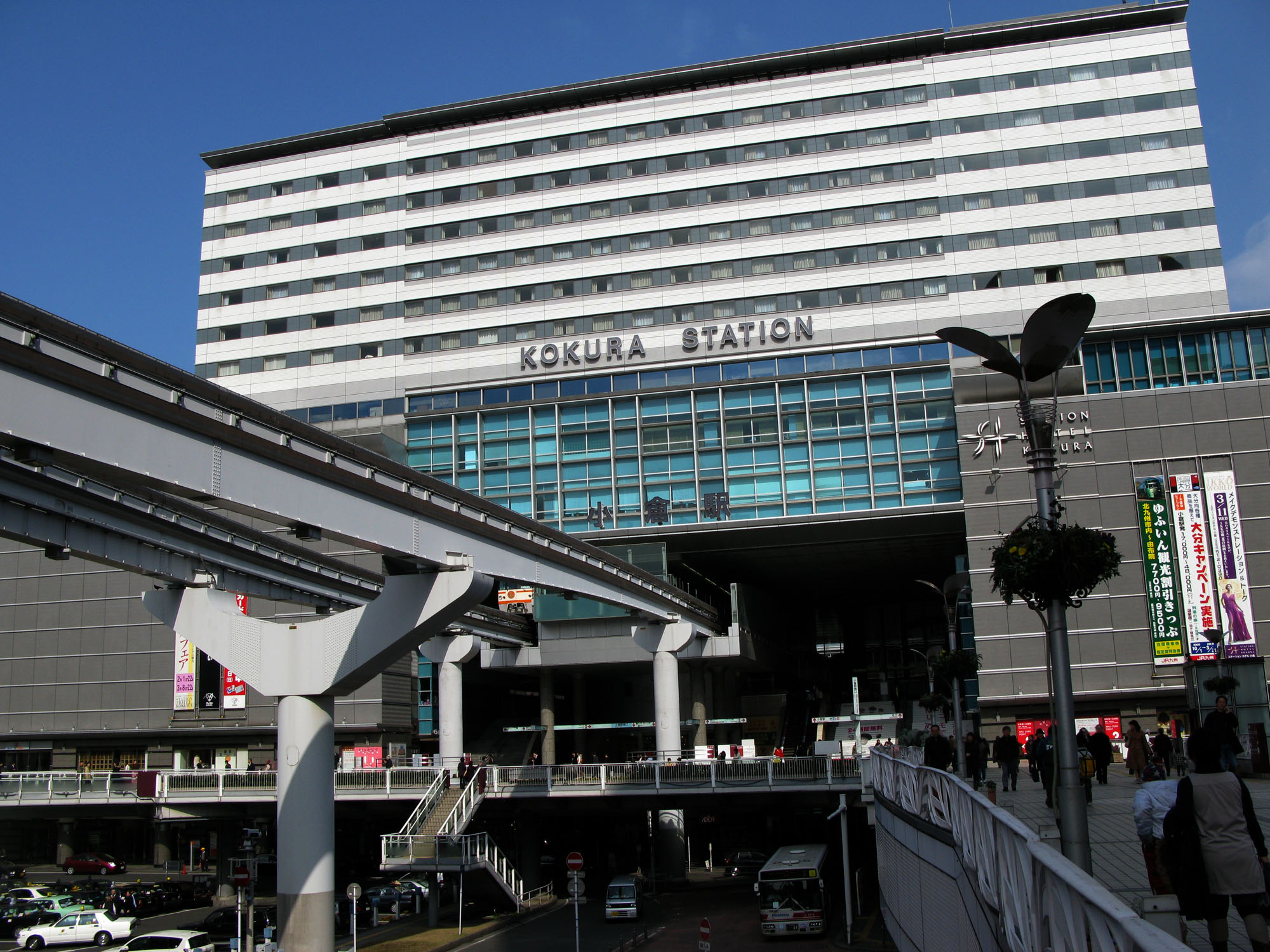 Kokura Station South Gate